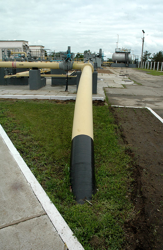 The ammonia pipeline running from Tolyatti, Russia to Odessa, Ukraine.